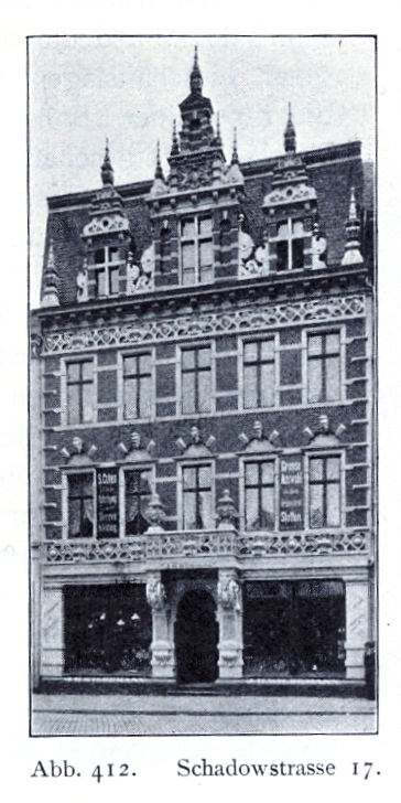 Geschäftshaus Schadowstraße 17 in Düsseldorf der Firma J. H. Wildemann, Umbau von den Architekten "van Els & Schmitz" im Jahre 1883.jpg